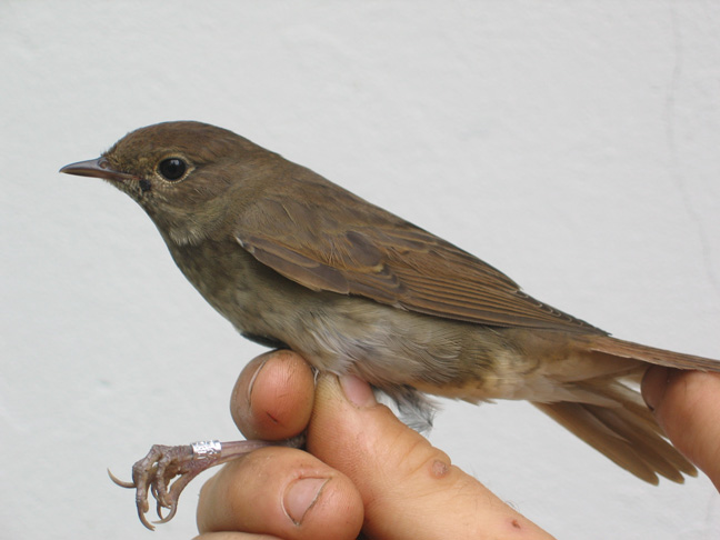 Thrush Nightingale (Luscinia luscinia) at a ringing camp near Izsák, Kiskunság National Park, Hungary, 20 August 2005